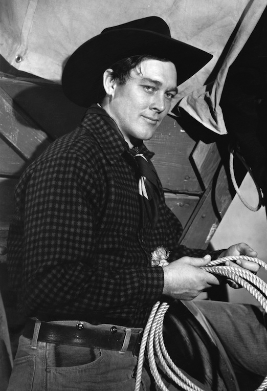 Publicity photograph for the film Wagon Master (1950) showing Ben Johnson and Harry Carey, Jr..